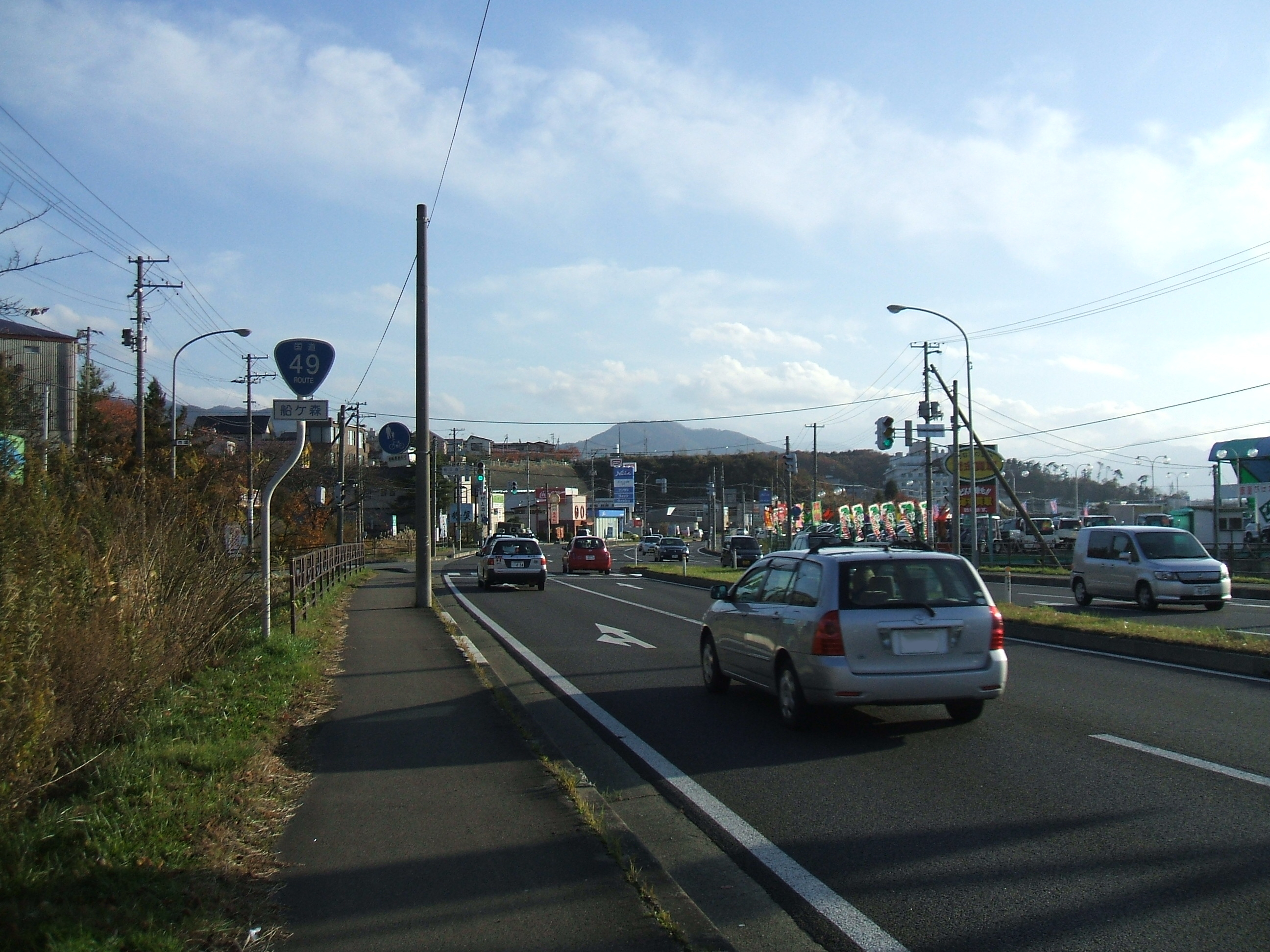 This is a landscape of Japanese National Road Route 49 at Tsuruga, Ikkimachi-town, Aizuwakamatsu, Fukushima.